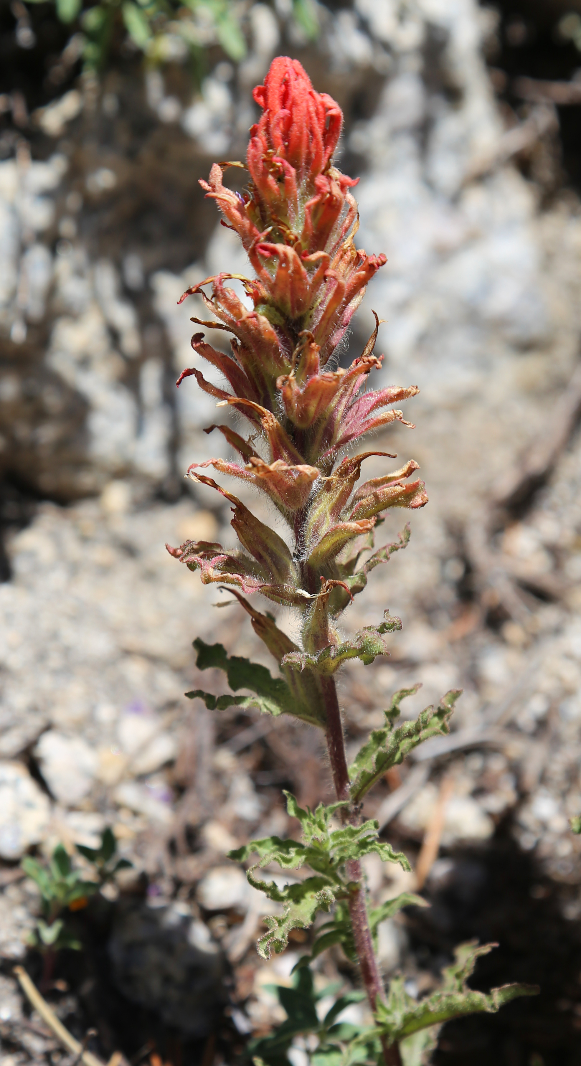 Applegate paintbrush (Castilleja applegatei), flowerhead and stalk, showing the characteristic wavy leaves. At 11,300 ft (3,400 m) along the trail to Mono Pass, John Muir Wilderness, Sierra Nevada USA.